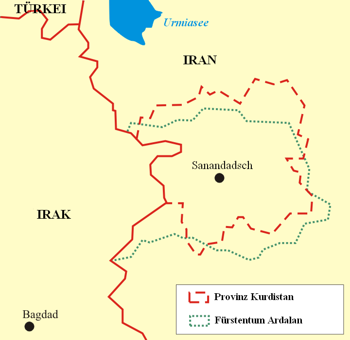 A map of the kurdish principality of Ardalan in german language